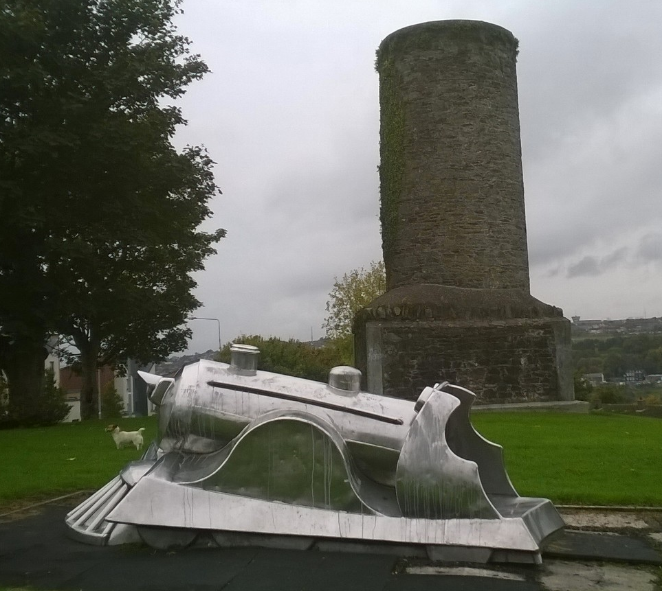 The first of four ventilation shafts constructed c. 1850 for a subterranean tunnel connecting Mallow to Cork city.